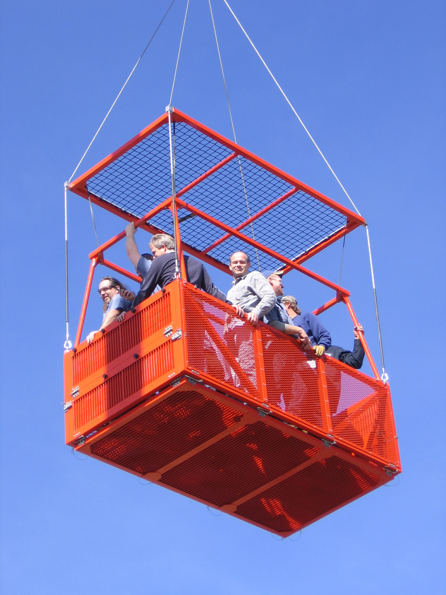 This the the HB2000 which is designed to carry 15 persons. It is designed for rescue of personnel and transport of Cargo to areas which are not accessible for Helicopter landing.